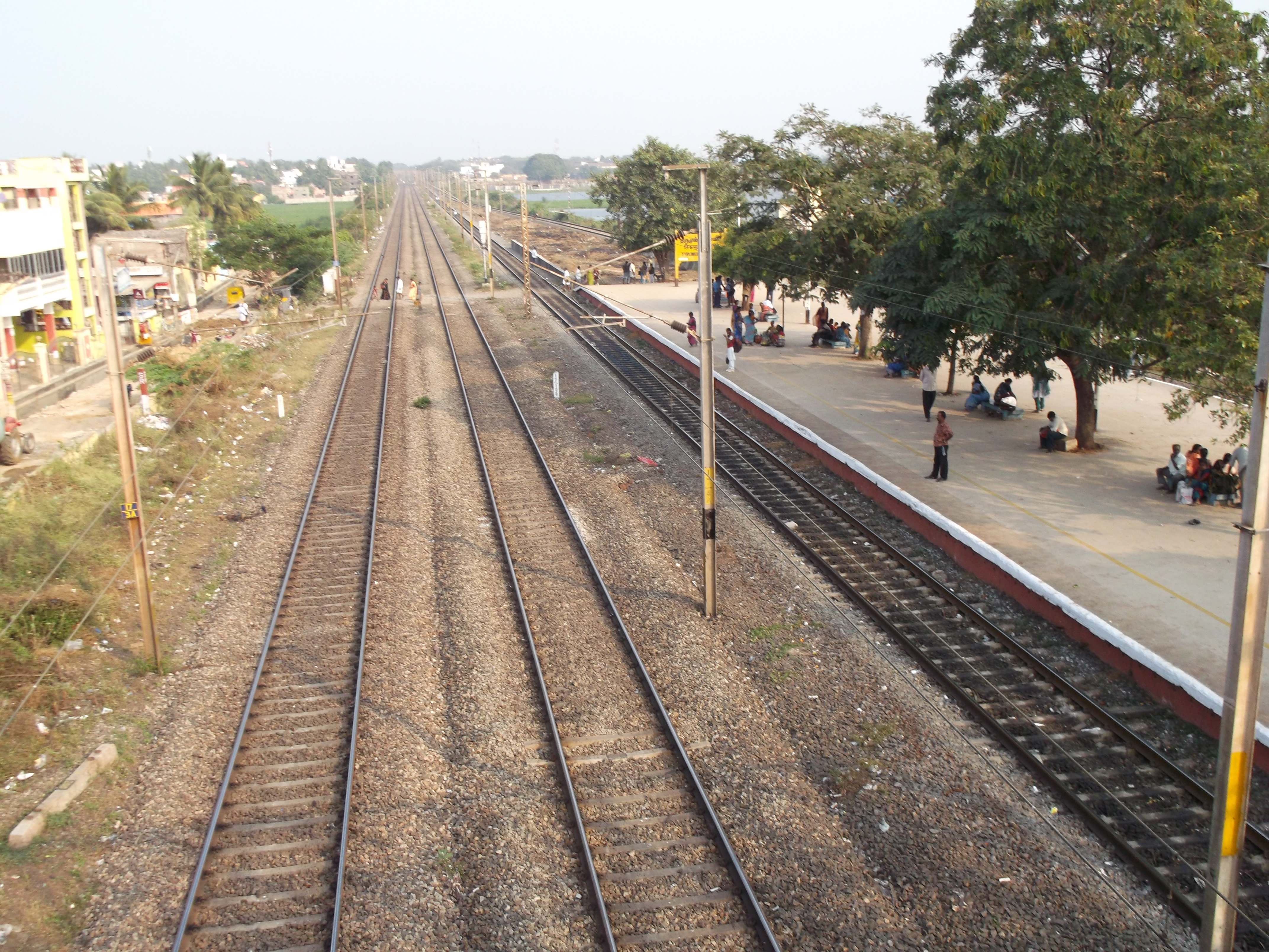 Chennai Suburban Railway, Thirumullaivoyil towards eastern side, taken on 28-Jan-2013 at 4.00 pm